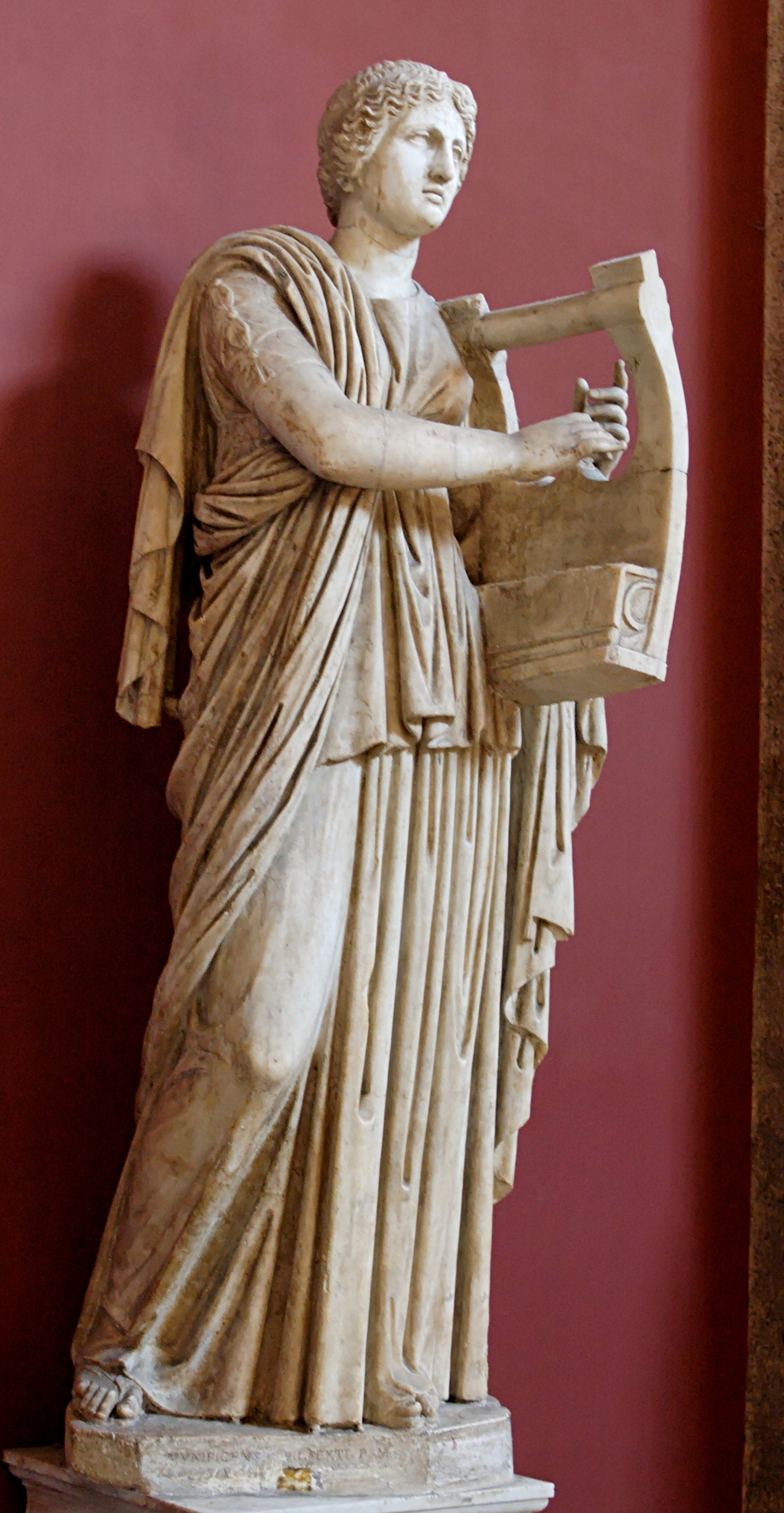 Erato, Muse of poetry. Marble, Roman artwork from the 2nd century CE; the head is a copy after Artemis of the Colonna type and does not belong to the statue. From the Villa of Cassius near Tivoli, 1774.